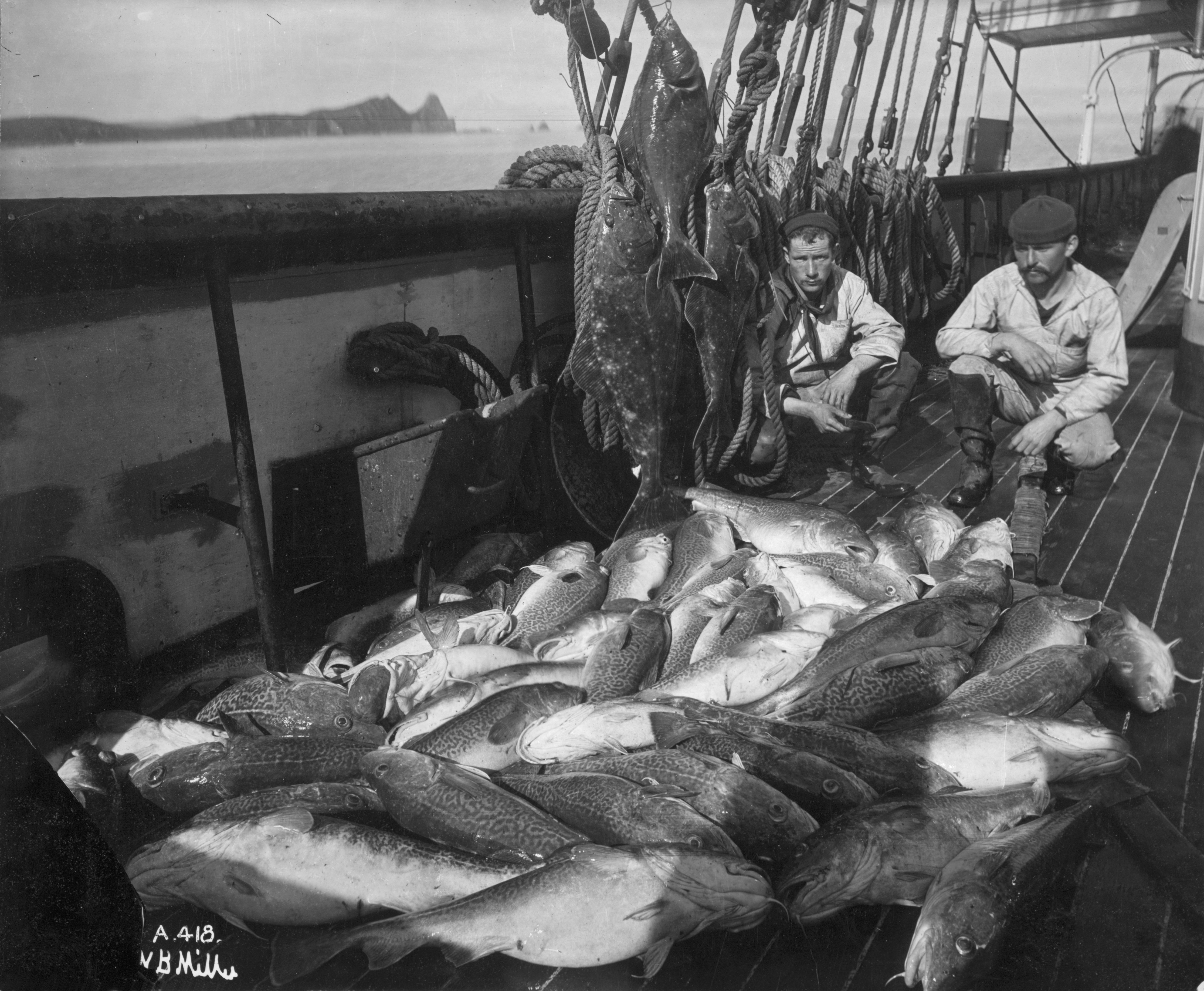 Fishing boat, cod and halibut, Alaska Bears photographer's number A 418 and signed N.B Miller or possibly V.B. Miller